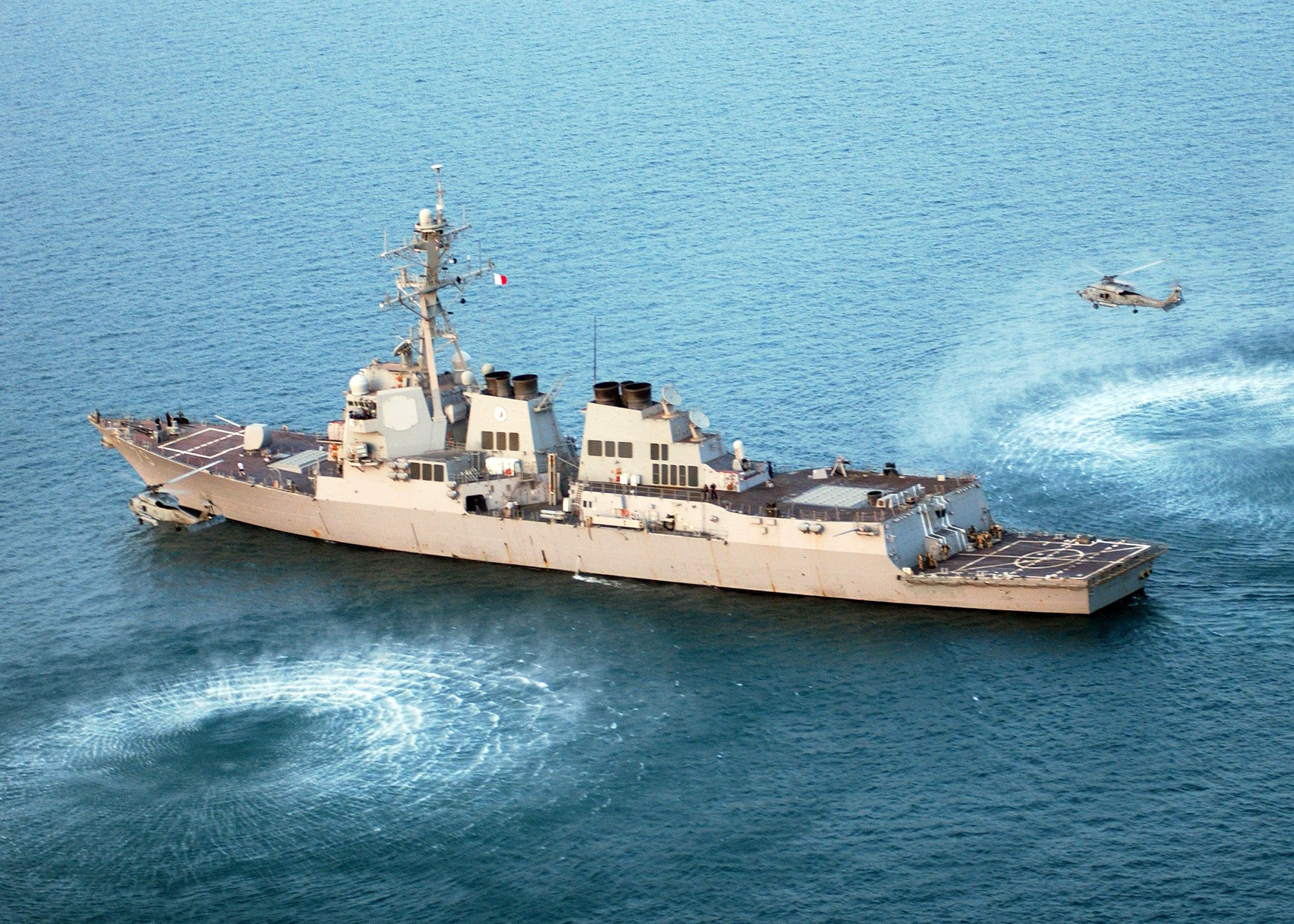 An HH-60H and a SH-60F Seahawk helicopter, assigned to the "Tridents" of Helicopter Anti-Submarine Squadron 3 (HS-3), flank the U.S. Navy guided missile destroyer USS Oscar Austin (DDG-79) while underway in the Persian Gulf. Austin, assigned to Destroyer Squadron 22, was underway on a regularly scheduled deployment conducting maritime security operations.